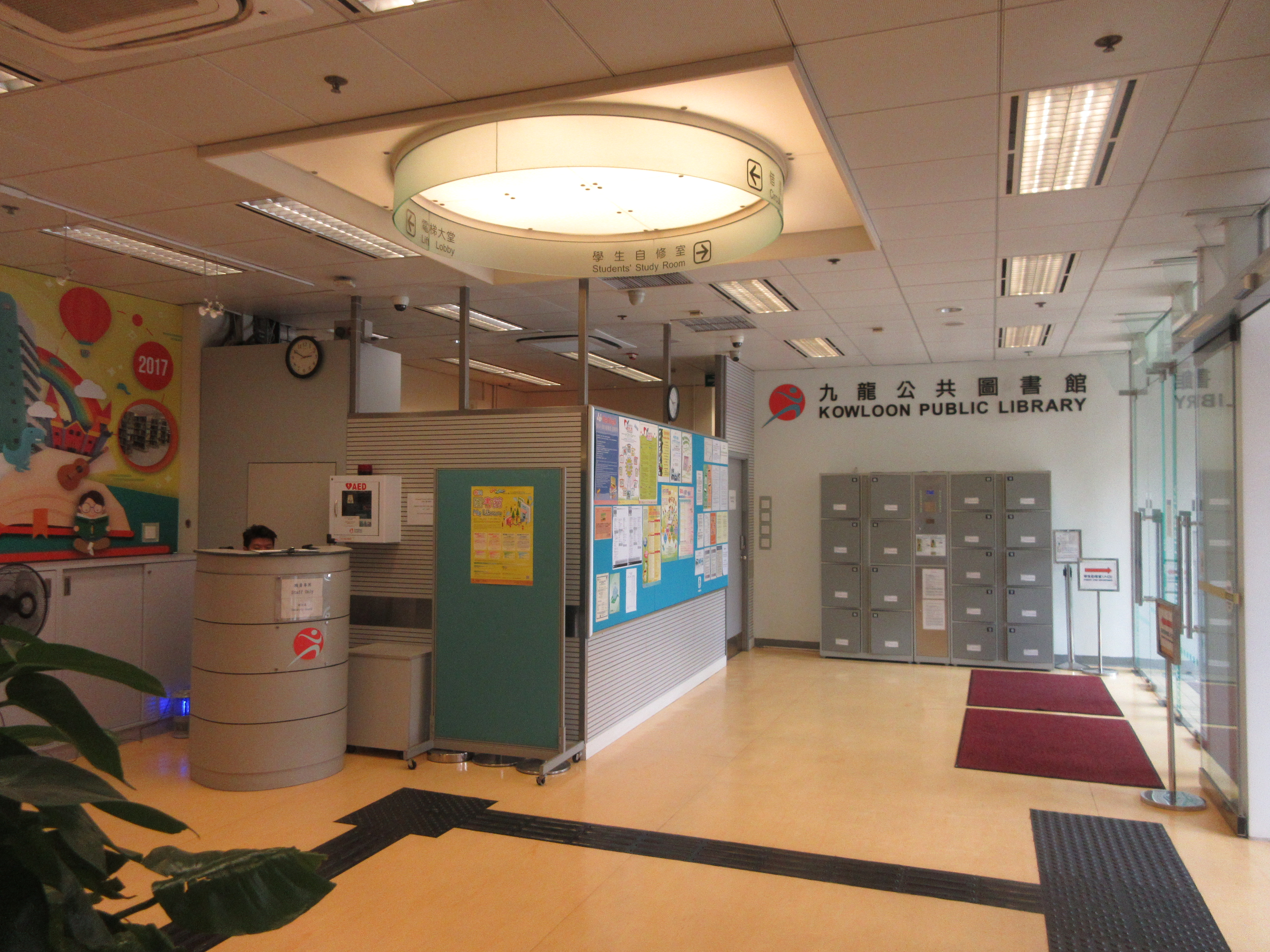 HK 何文田 Ho Man Tin KPL 九龍公共圖書館 Kowloon Public Library in November 2017